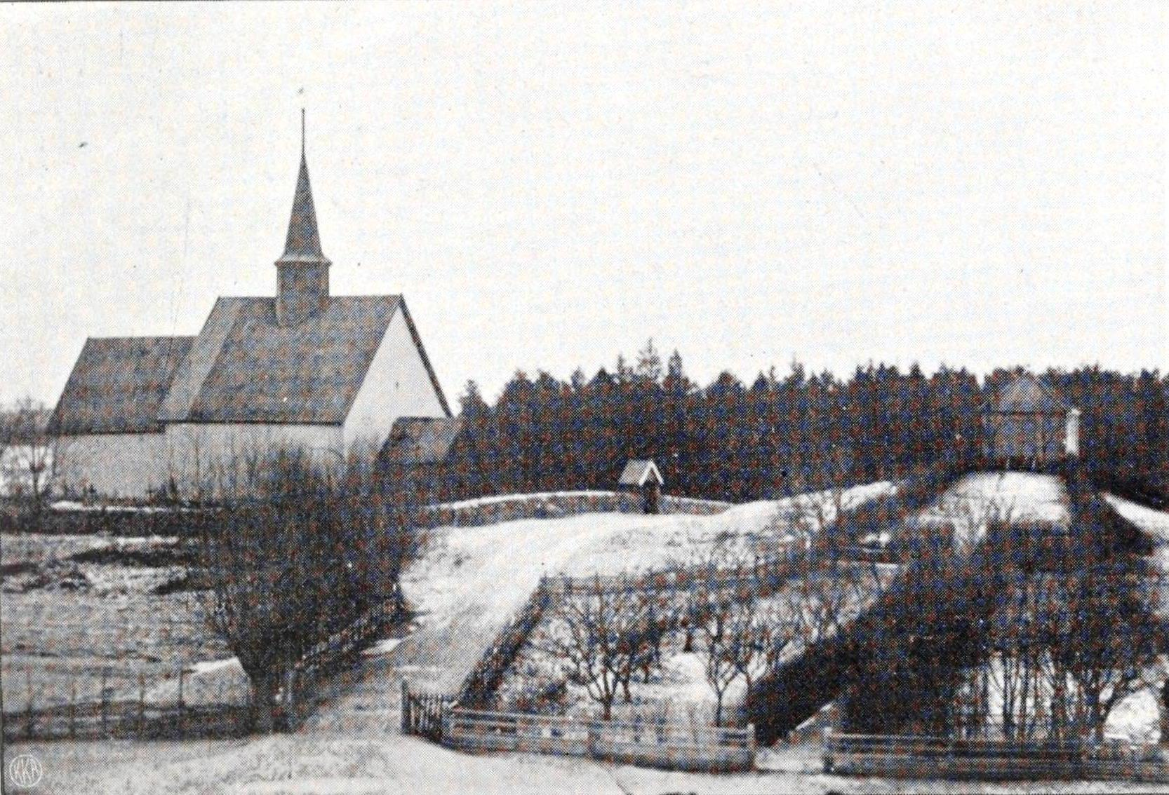 Old church i Askim, Norway. Torn down i 1878.